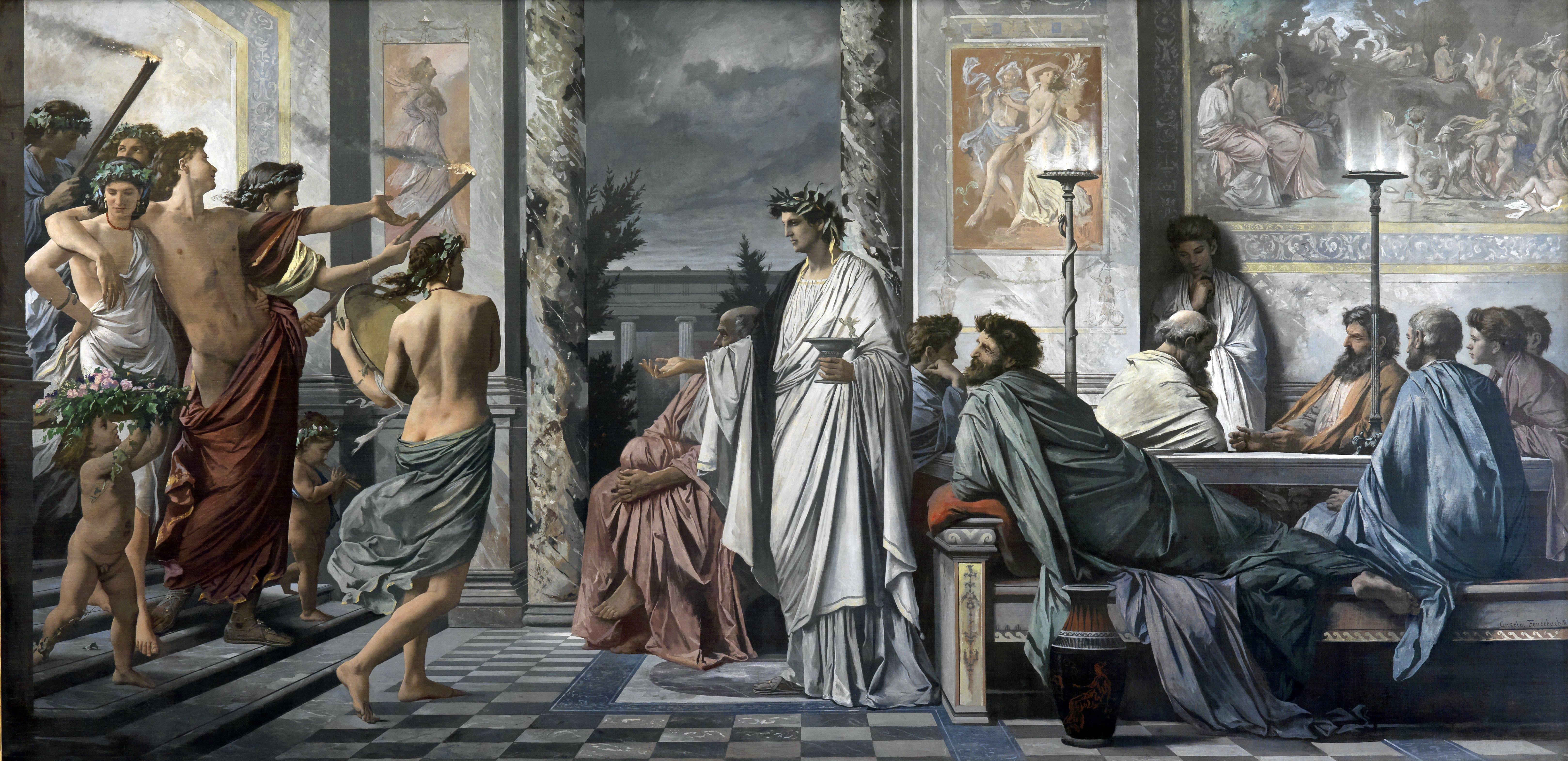 Anselm Feuerbach (1829-1880) painted this scene from Plato's Symposium in 1869. It depicts the tragedian Agathon as he welcomes the drunken Alcibiades into his house.